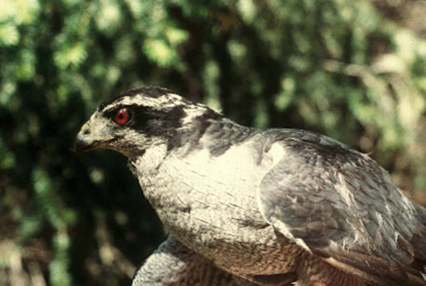 Northern Goshawk Adult Male (Accipiter gentilis)